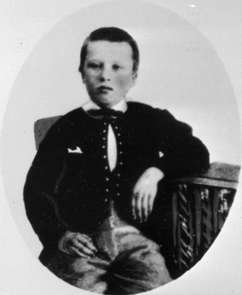 Richard B. Bennett as a boy